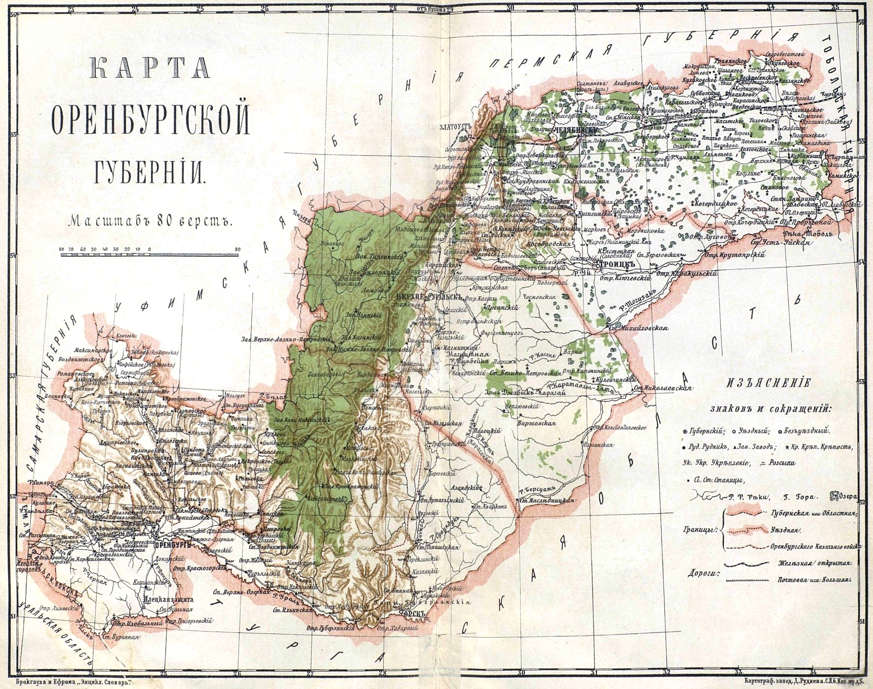 Map of Orenburg Governorate (1897)